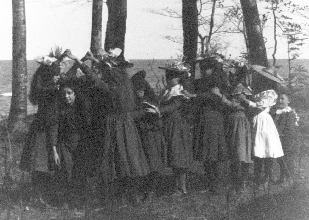 Girls playing "London Bridge Is Falling Down", United States, 1898.